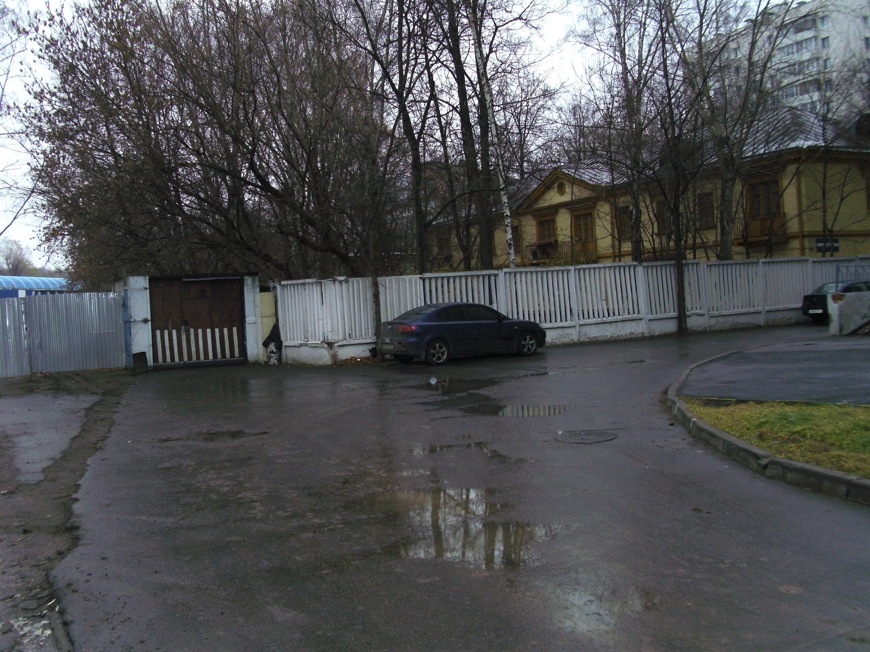 The end of 5th Voykovskiy proezd (Moscow)